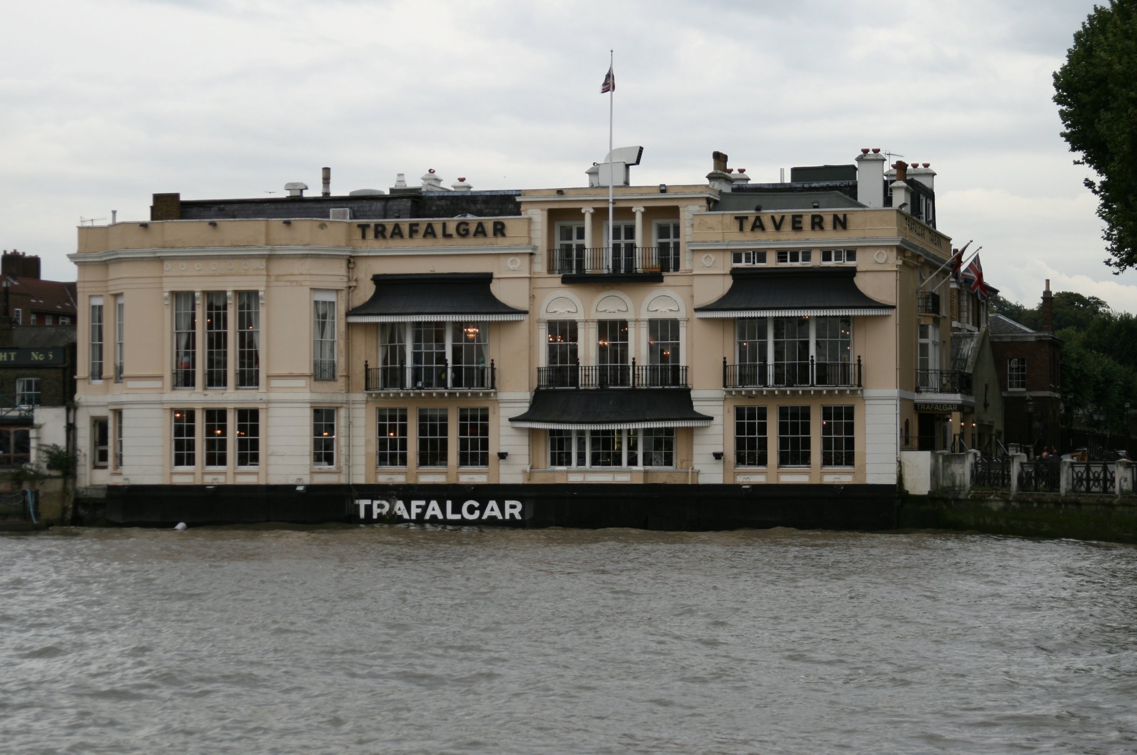 In and around London